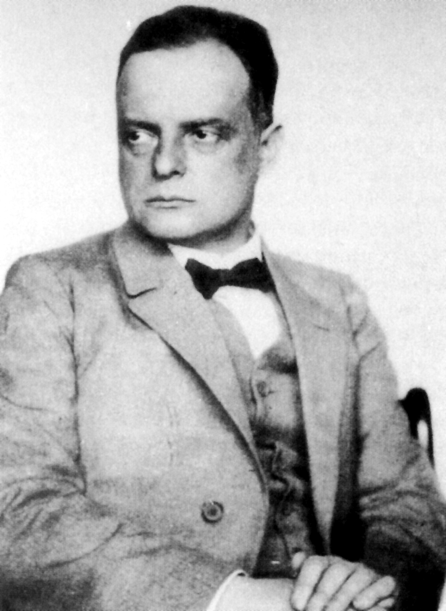 Portrait photograph of Germain painter Paul Klee by Hugo Erfurth, Dresden